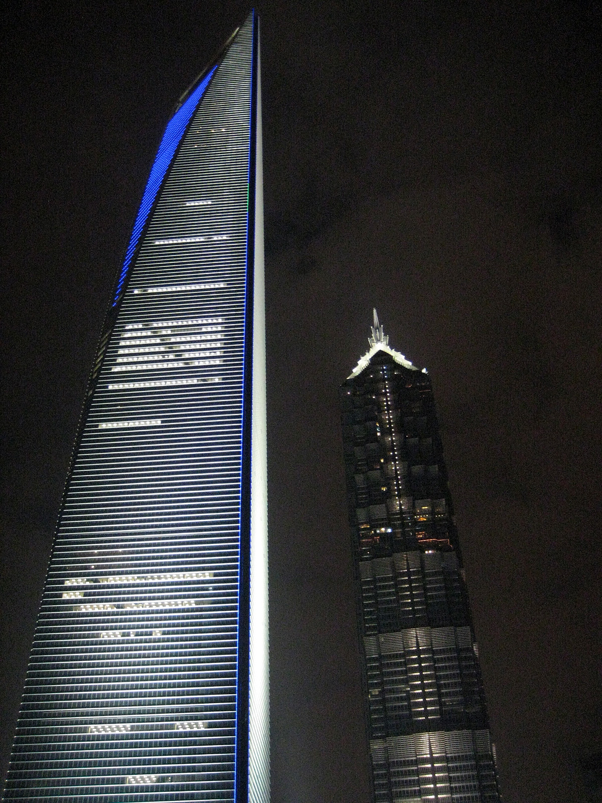 Shanghai World Financial Center and Jin Mao Tower at night